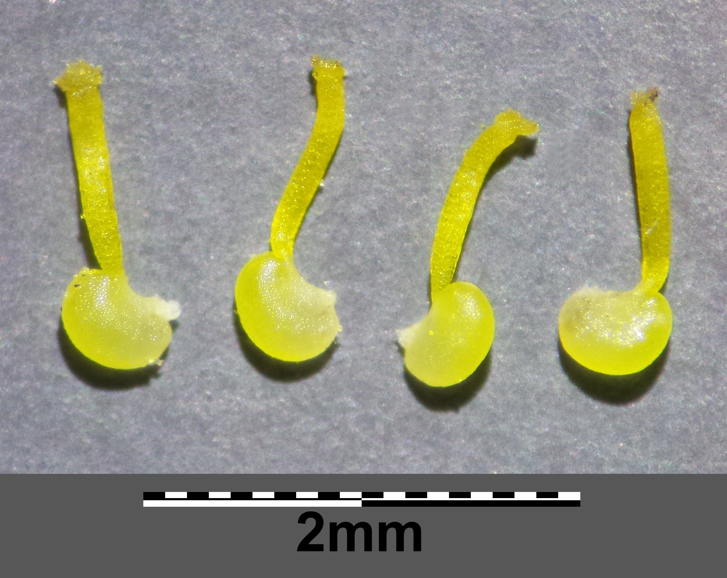 Nutlets Taxonym: Potentilla reptans ss Fischer et al. EfÖLS 2008 ISBN 978-3-85474-187-9 Location: Donaupark, Vienna-Donaustadt - ca. 160 m a.s.l. Habitat: ballast